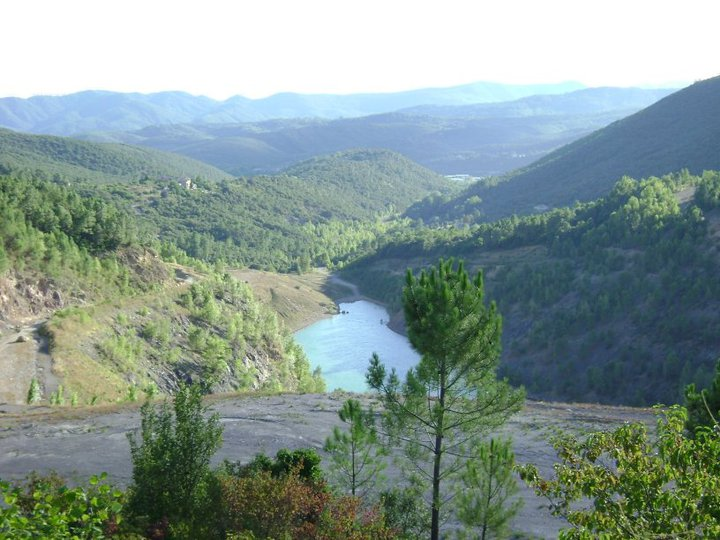 Prise de l'ancienne départementale/nationale entre le pradel et le Mas dieu. Vue sur le lac